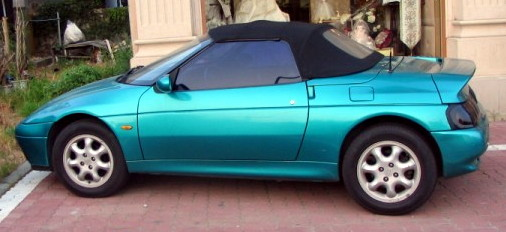 Kia Elan in South Korea, August 2005 Taken by Ian Finnesey